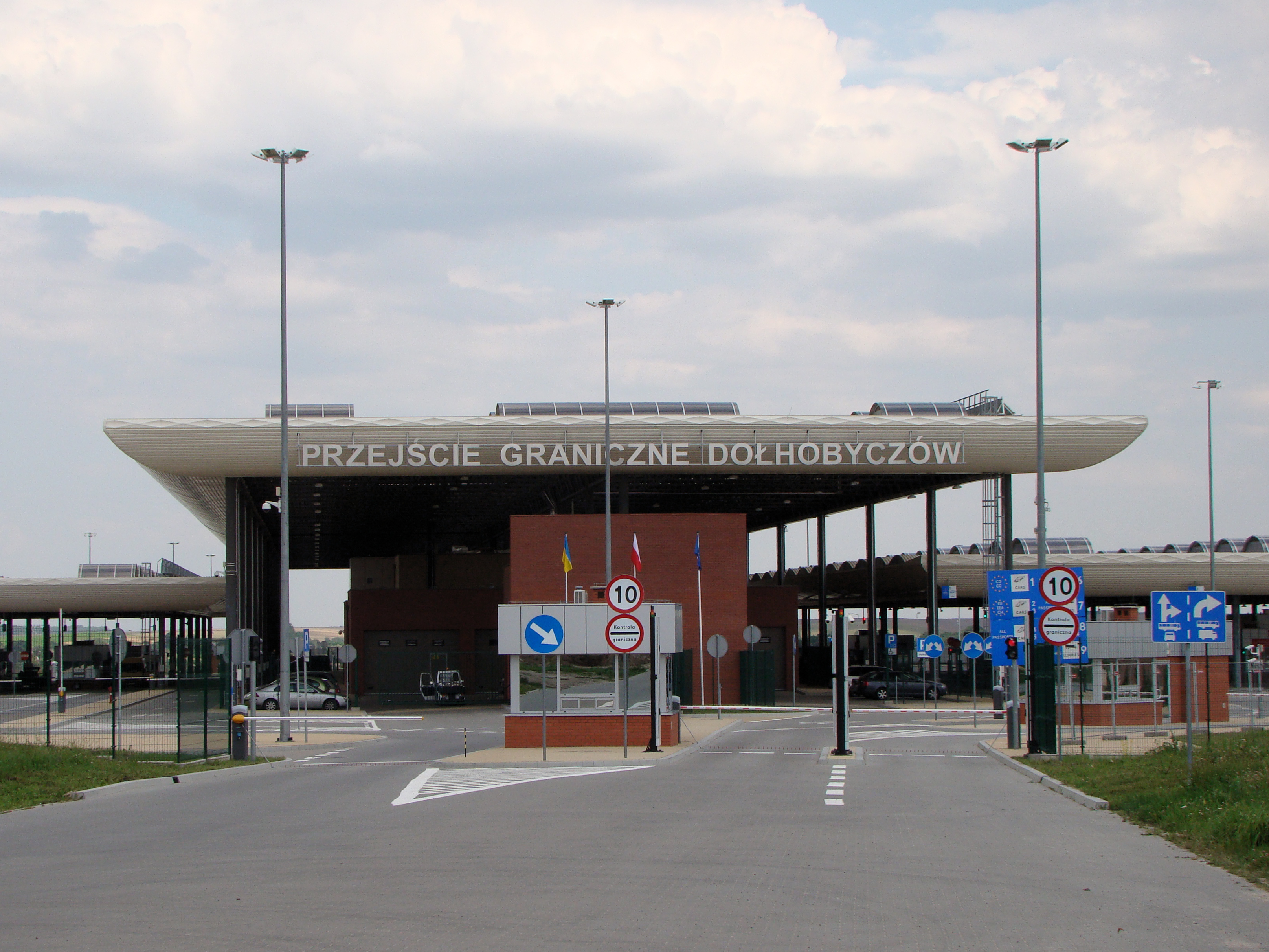 Polish-Ukraine border checkpoint in Dołhobyczów-Kolonia